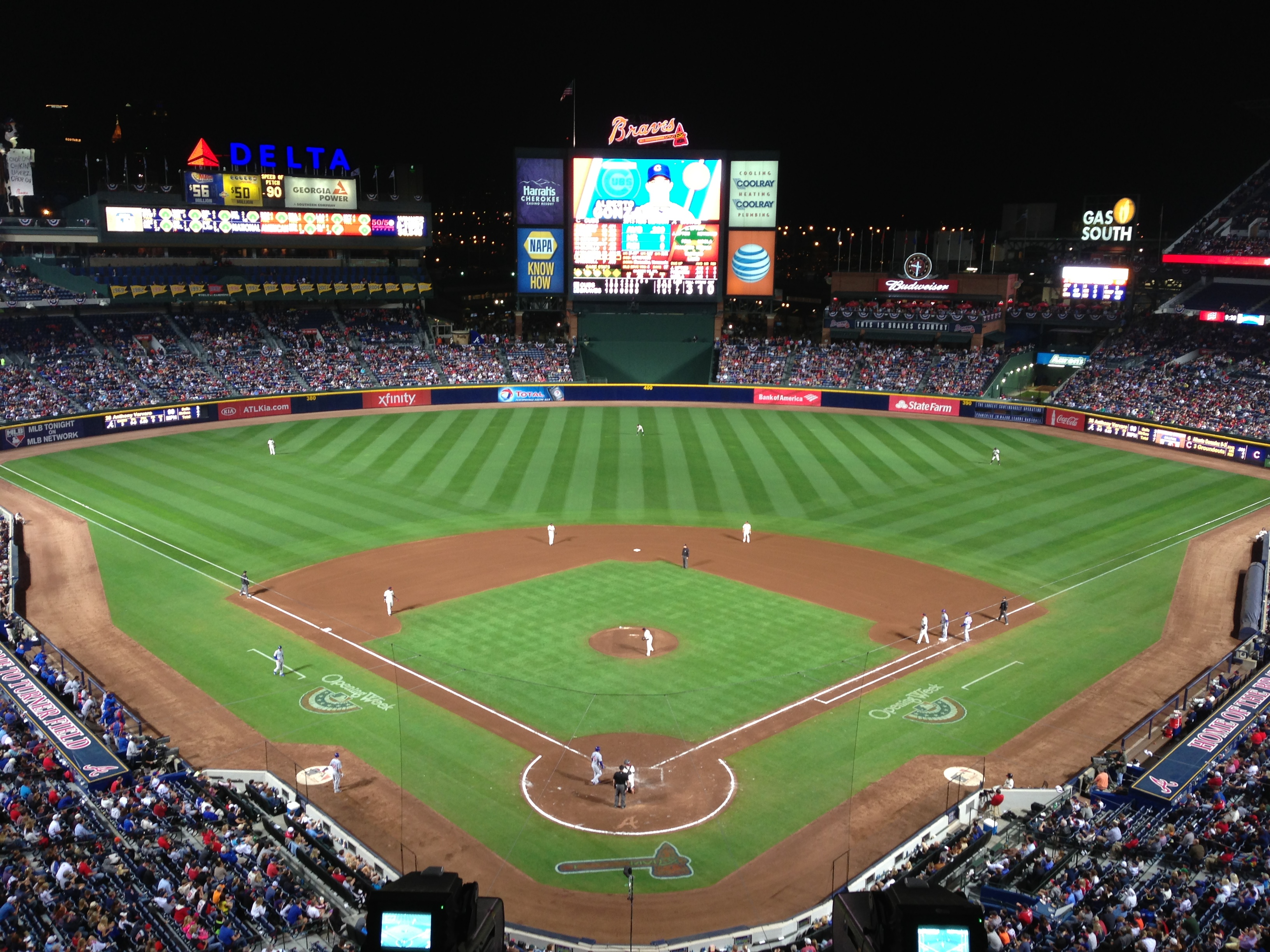 Photo of Turner Field during a night game on April 6, 2013